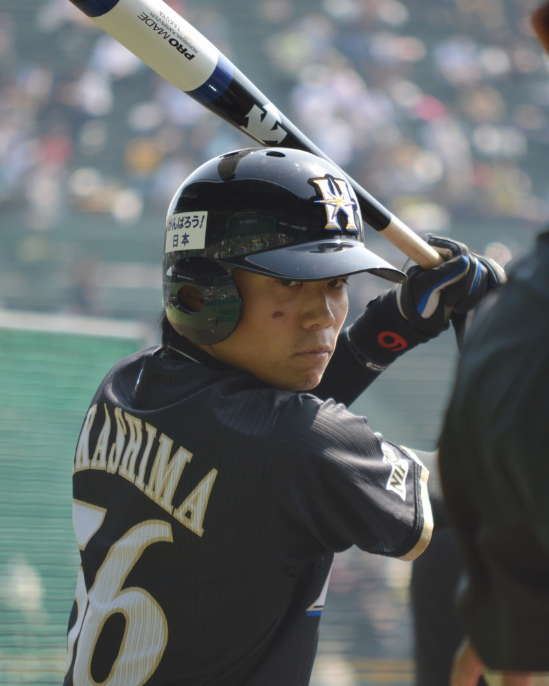 NF-Takuya-Nakashima20130309